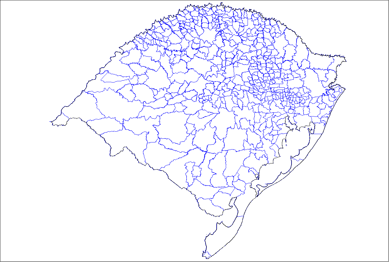 Map of the municipalities of the state of Rio Grande do Sul, Brazil. Created by Rarelibra 13:21, 25 August 2006 (UTC) for public domain use. Created using MapInfo Professional v8.5 and various mapping resources.